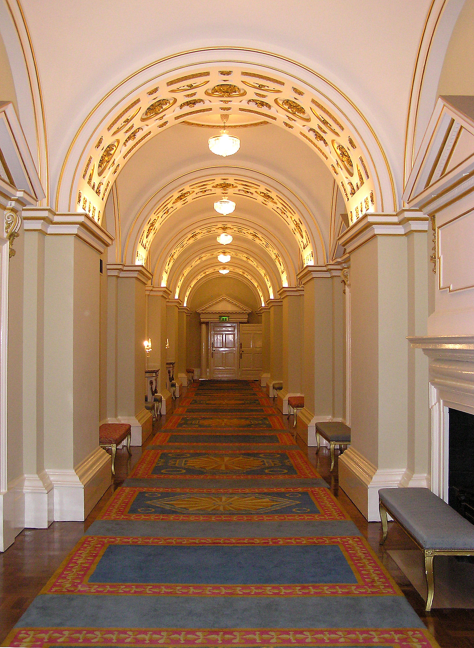 Dublin Castle (State Corridor), Ireland